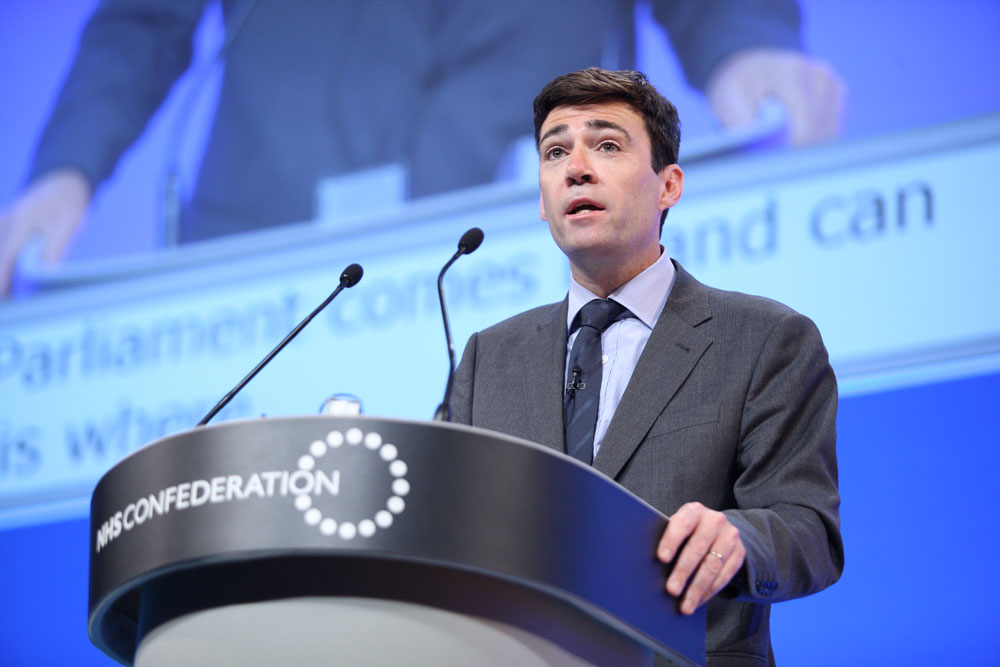 Andy Burnham MP, shadow secretary of state for health, addresses delegates on day two of the NHS Confederation annual conference and exhibition 2014.